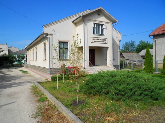 Kingdom Halls in Bălți